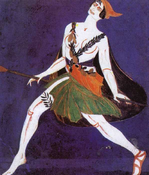 Alexandra Exter "Maenad", 1916